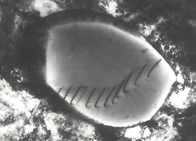 TEM Micrograph of Dislocations 1 (precipitate and dislocations in austenitic stainless steel) Photomicrograph by Wikityke